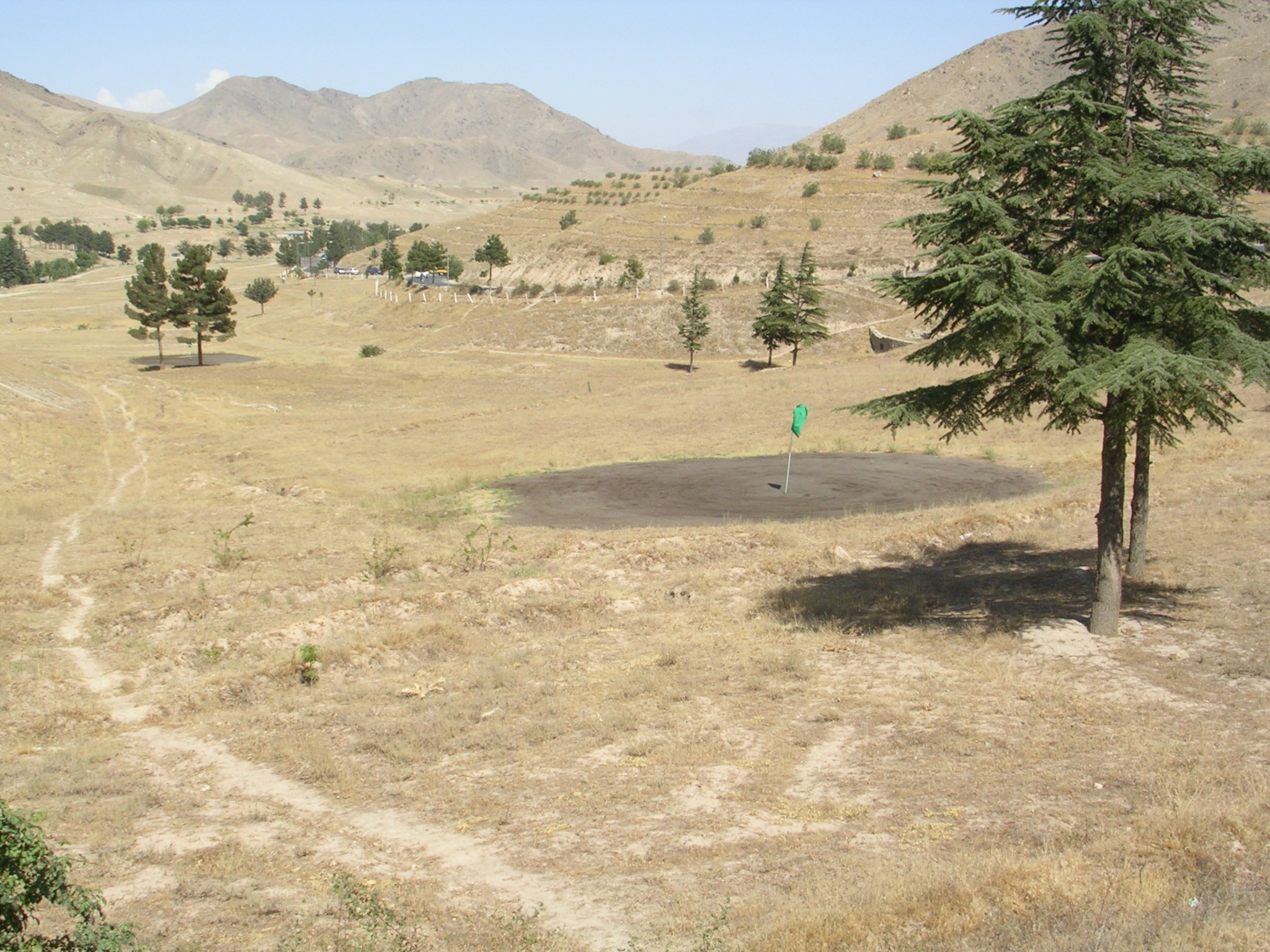 Kabul Golf Course Photo by Behzad Noubary